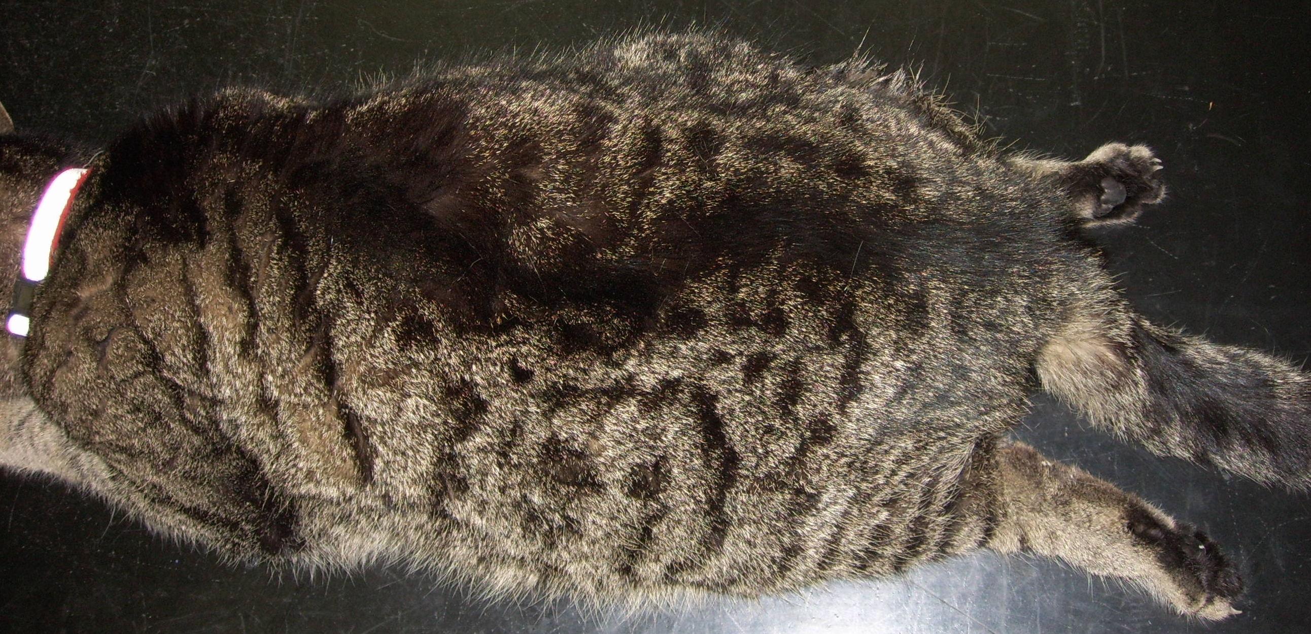 paraparesis due to aortic thrombosis in a cat